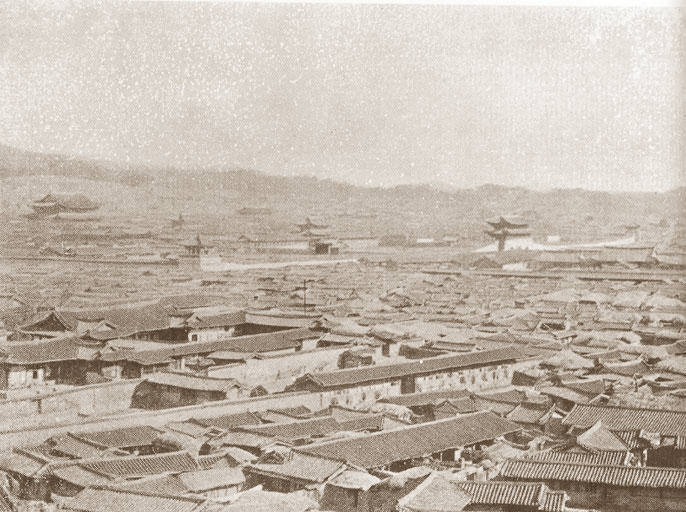 A view of Seoul in 1894.